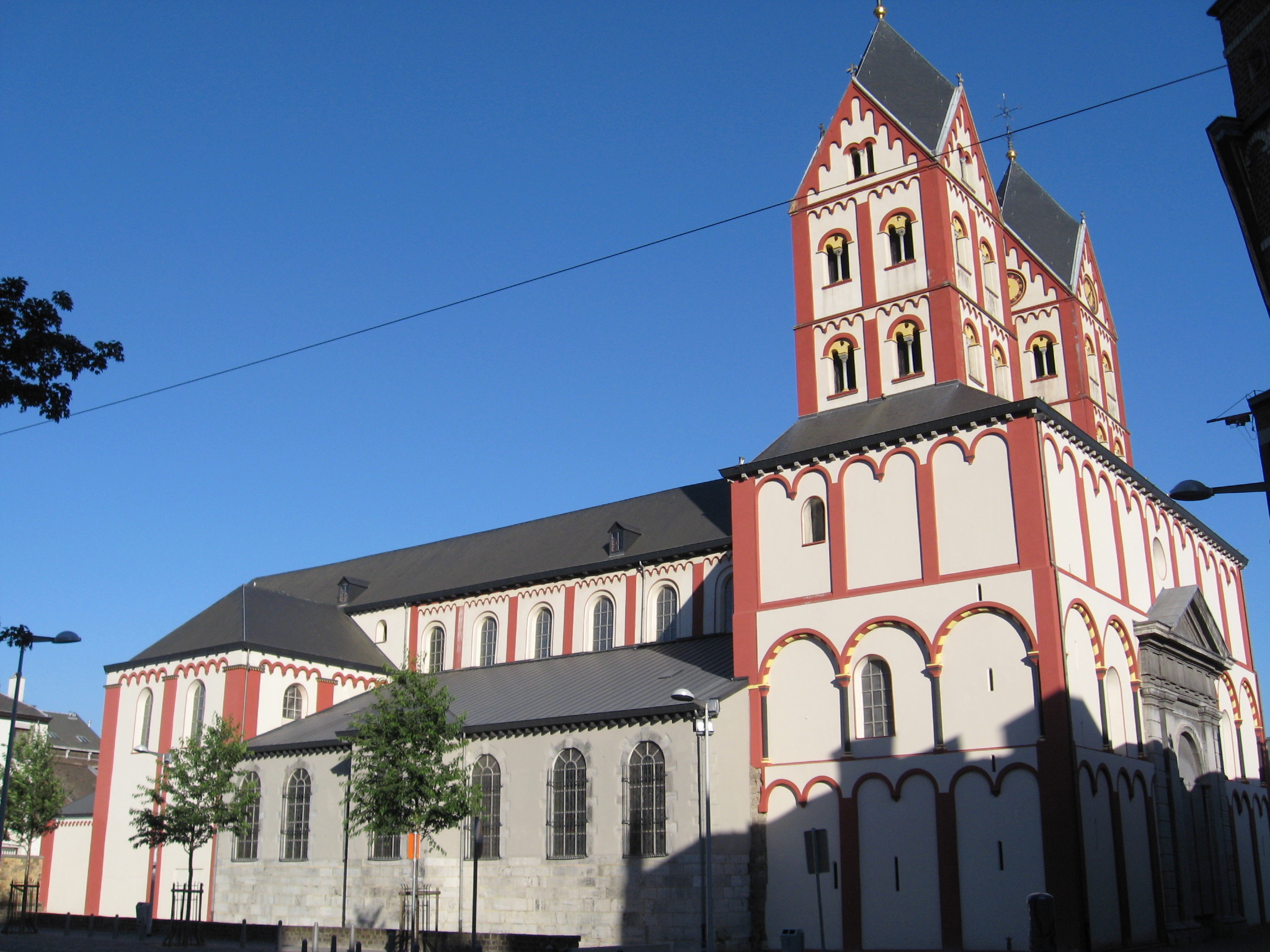 Church of Saint Bartholomew in Liège, Liège, Belgium